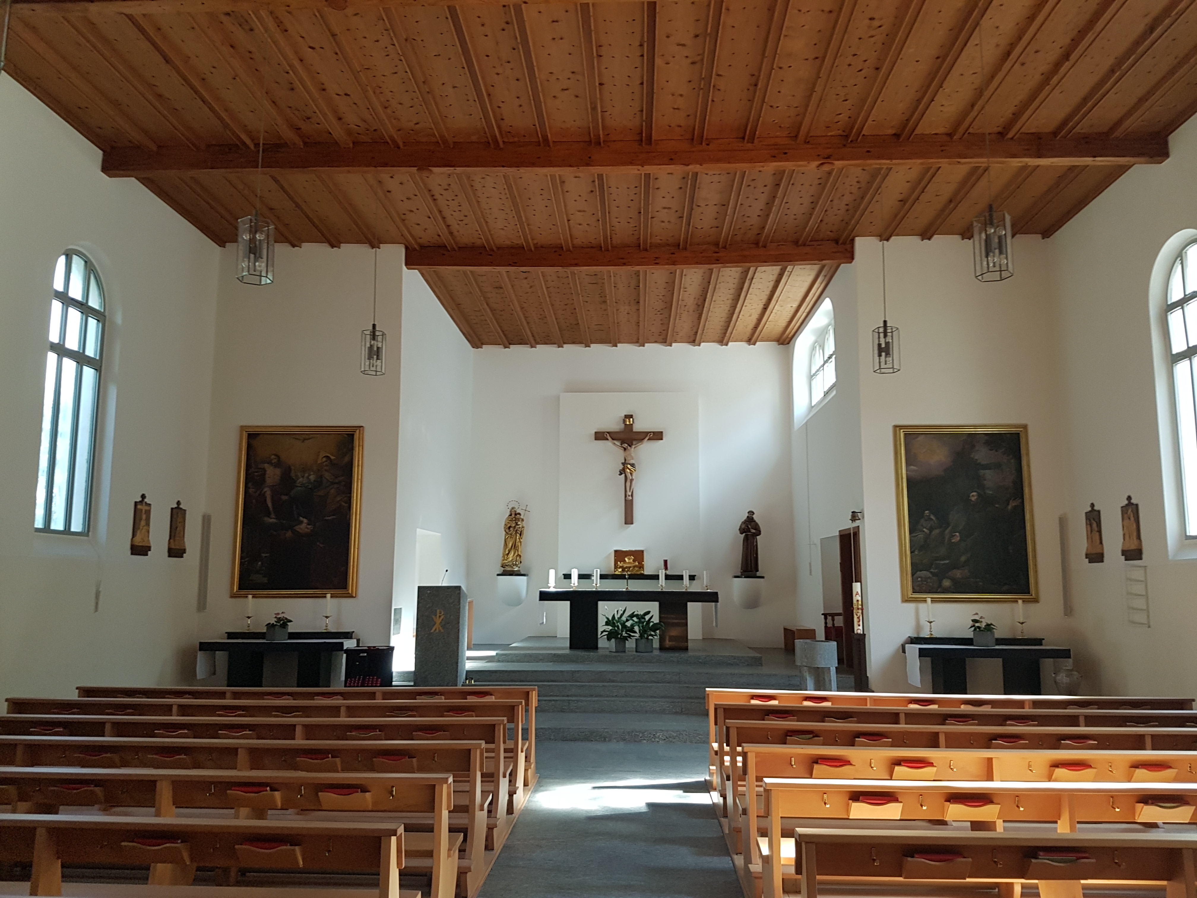 Le Prese in Valposchiavo, Grisons, Switzerland. Catholic Church of San Francesco d'Assisi.